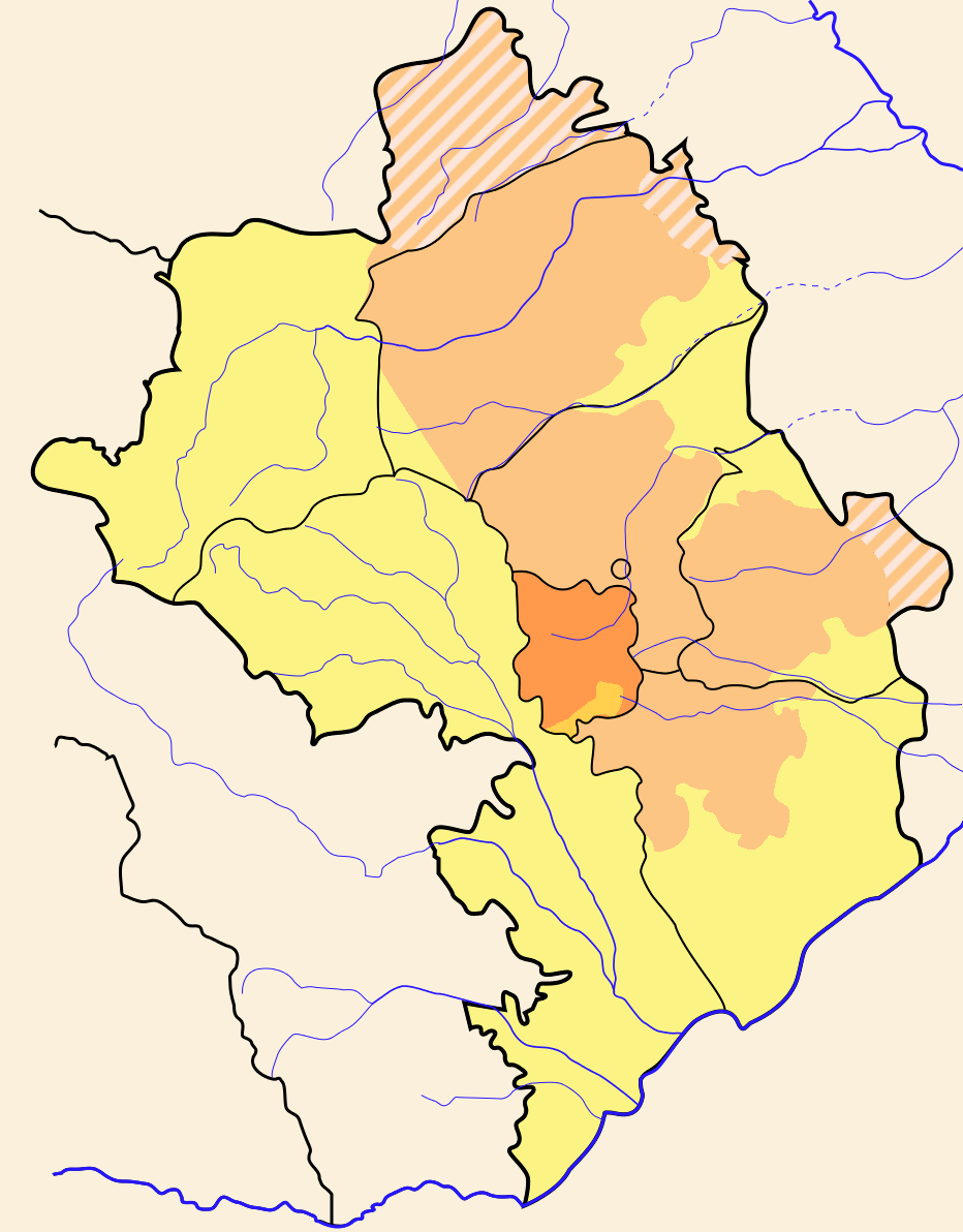 Rayon of Shushi in NKR